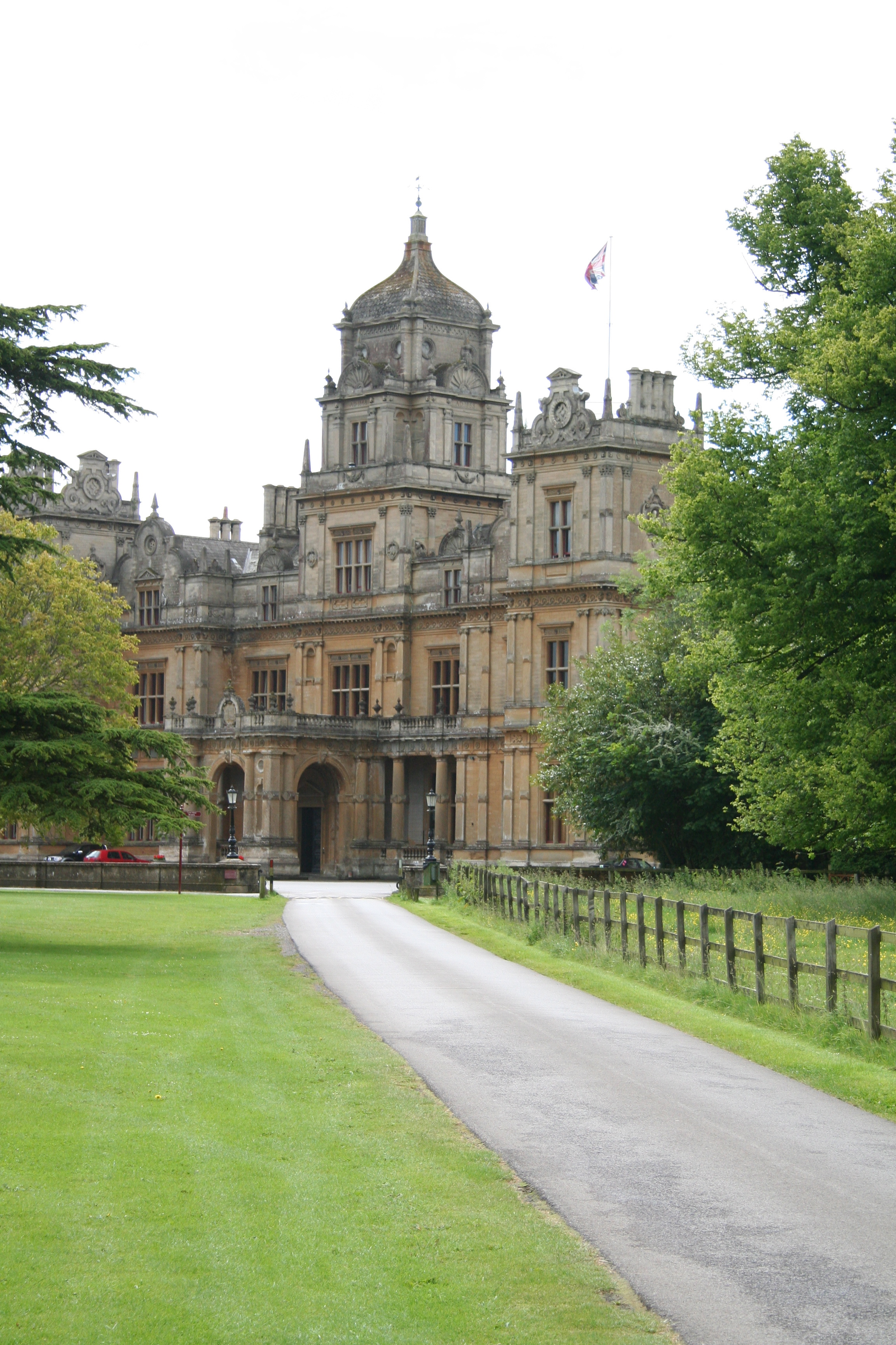 Shot of the front of Westonbirt House, which is part of Westonbirt School.